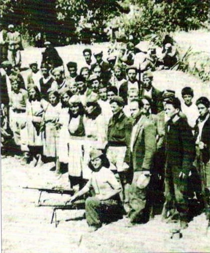 Participants of the conference of the National Liberation Front in village of D'mbeni (Dendrohori), Aegean Macedonia in April 1944